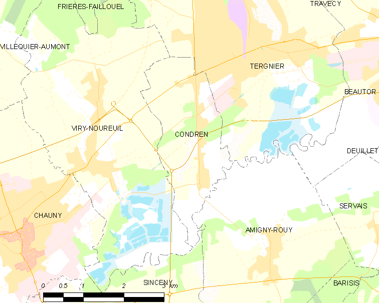 Map of French commune: Condren Map commune FR insee code 02212.png